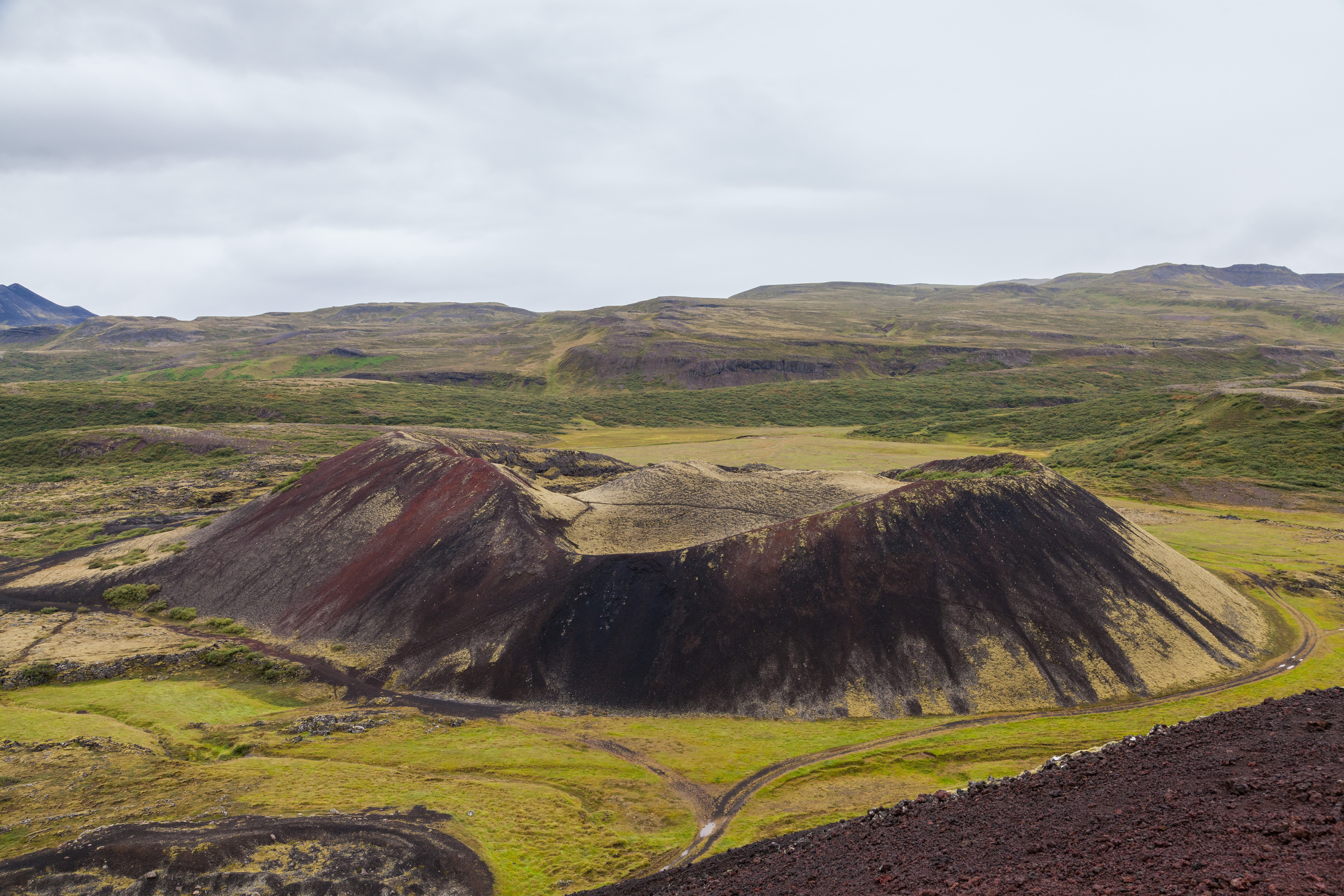 Litli Grábrók crater, Vesturland, Iceland